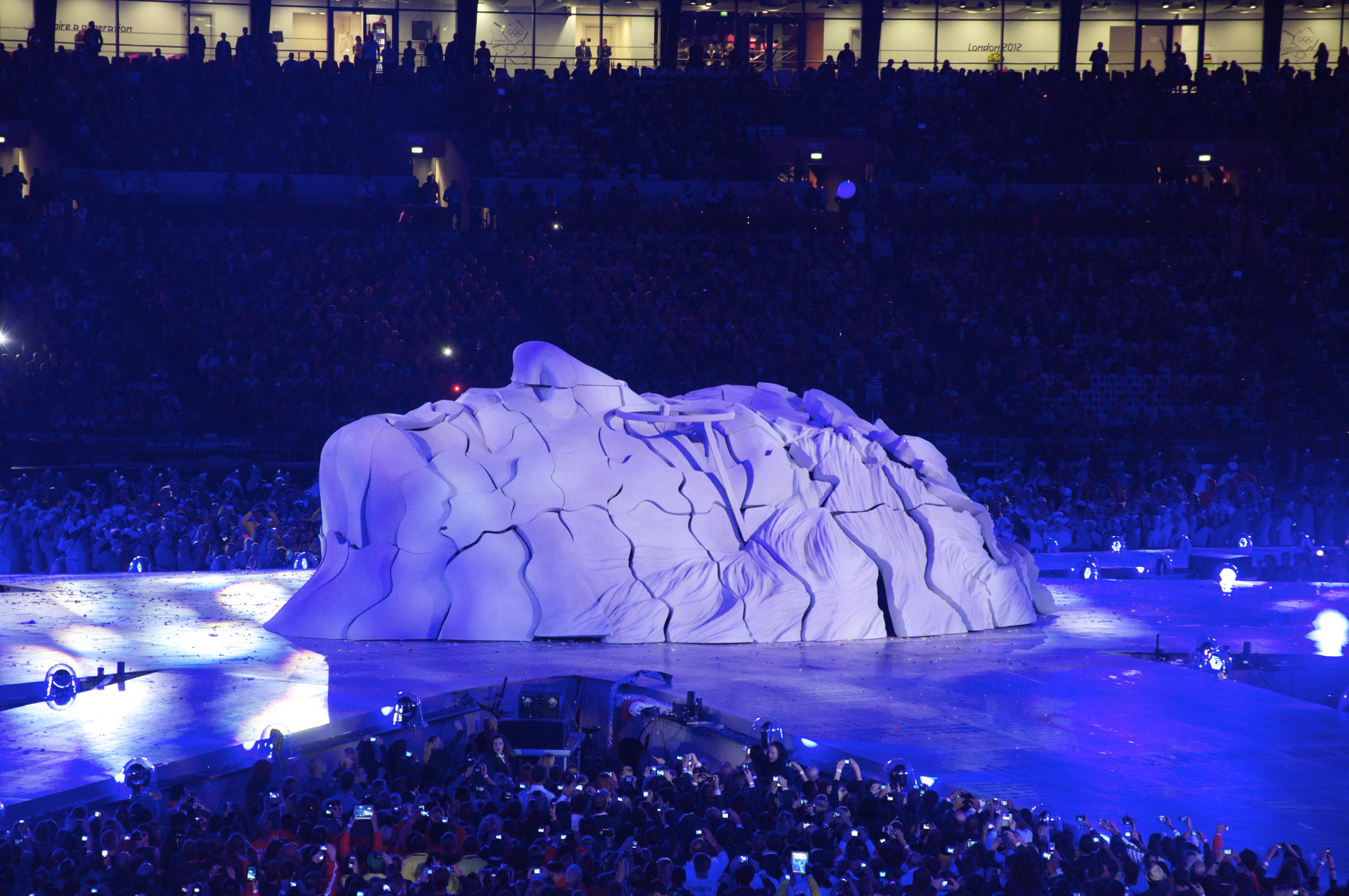 A sculpture of the face of John Lennon as part of the closing ceremony at the 2012 London Olympics.